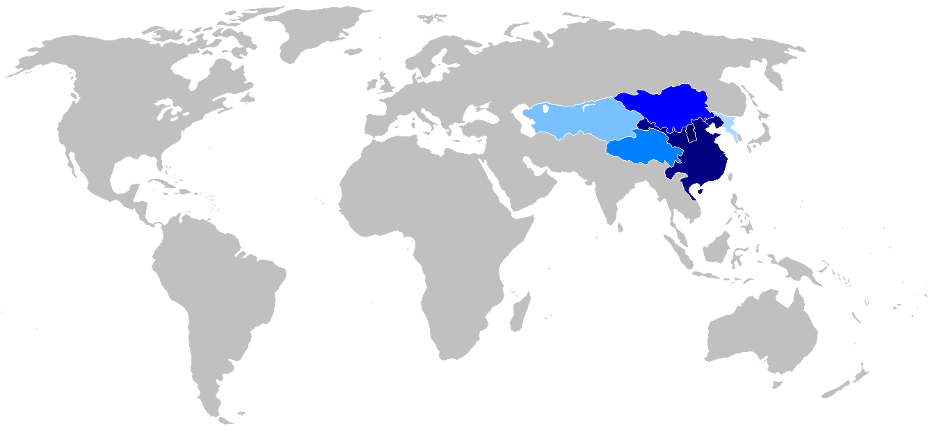 Boundaries or area which where -at one time- vassal states of the Tang Dynasty of China for the 616-665 period (have not korea). NB: borders are only indicatives. The map is mainly drawn following the current provincial borders of China, and current (2007) countries' borders. That's why borders are just indicative. Shanxi (617 : his father is governor, Taizong encouraged him to revolt.) Sui's Empire Protector (618). Tang dynasty 618. Controlled all of Sui's China by 622-626. Submit the Oriental Turks territories (630-682) Tibetan's King recognizes China as their emperor (641-670) Submit the Occidental Turks territories (642-665) Temporary conquest of Goguryeo and Baekje (661-668) Yug (talk) 14:06, 4 February 2007 (UTC)